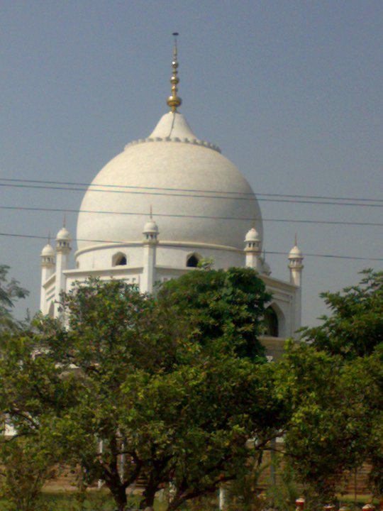 Darbar Syed Muhammad Wajeeh-u-seema Irfani